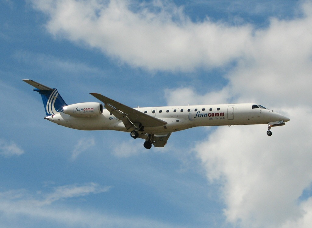 Finncomm Airlines Embraer ERJ-145